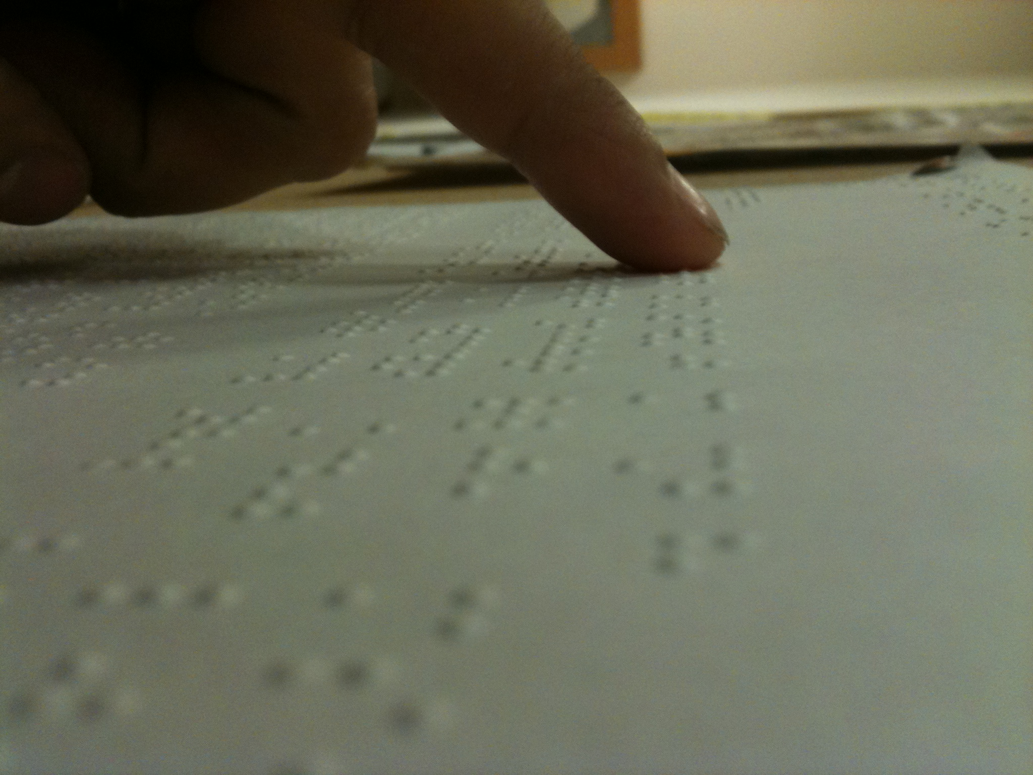 Reading Braille